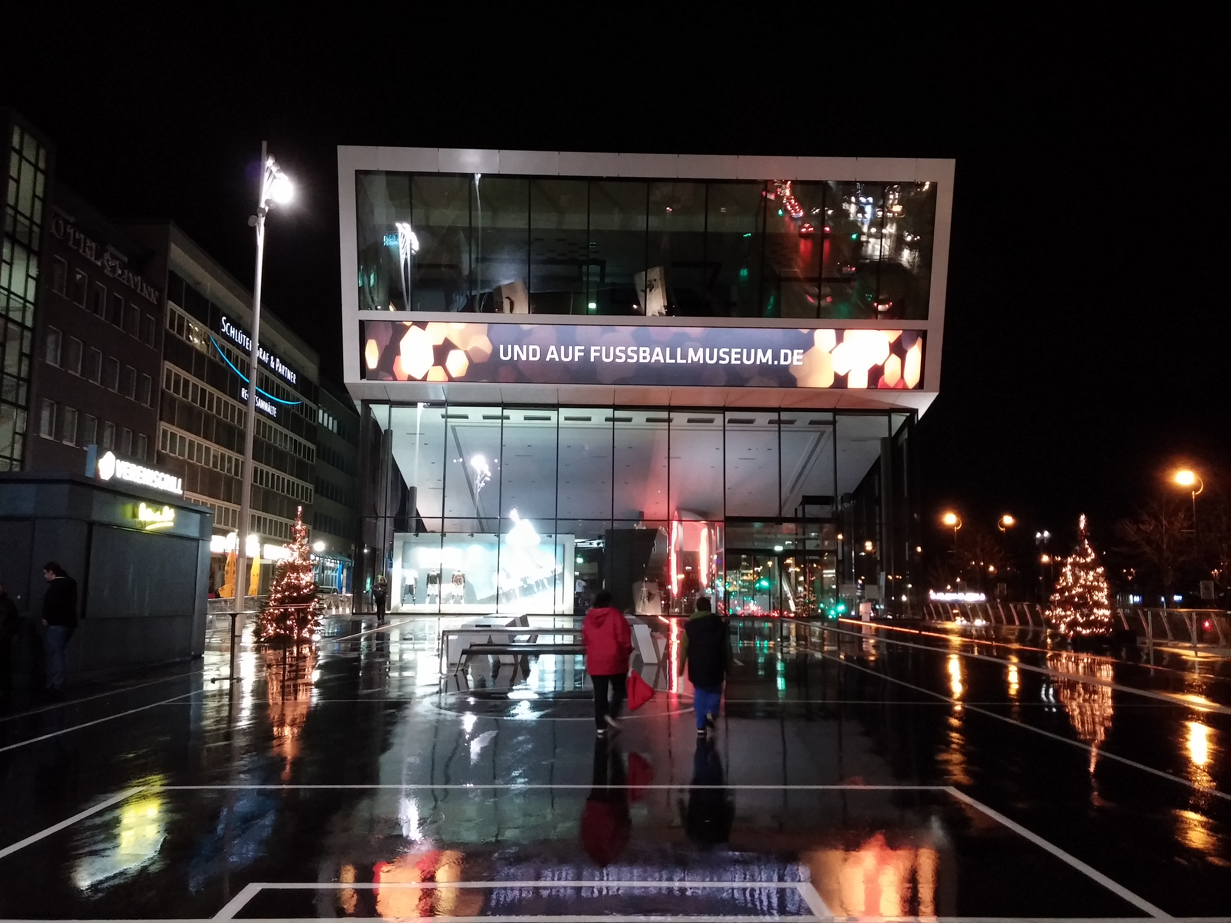 German Football Museum, Dortmund.